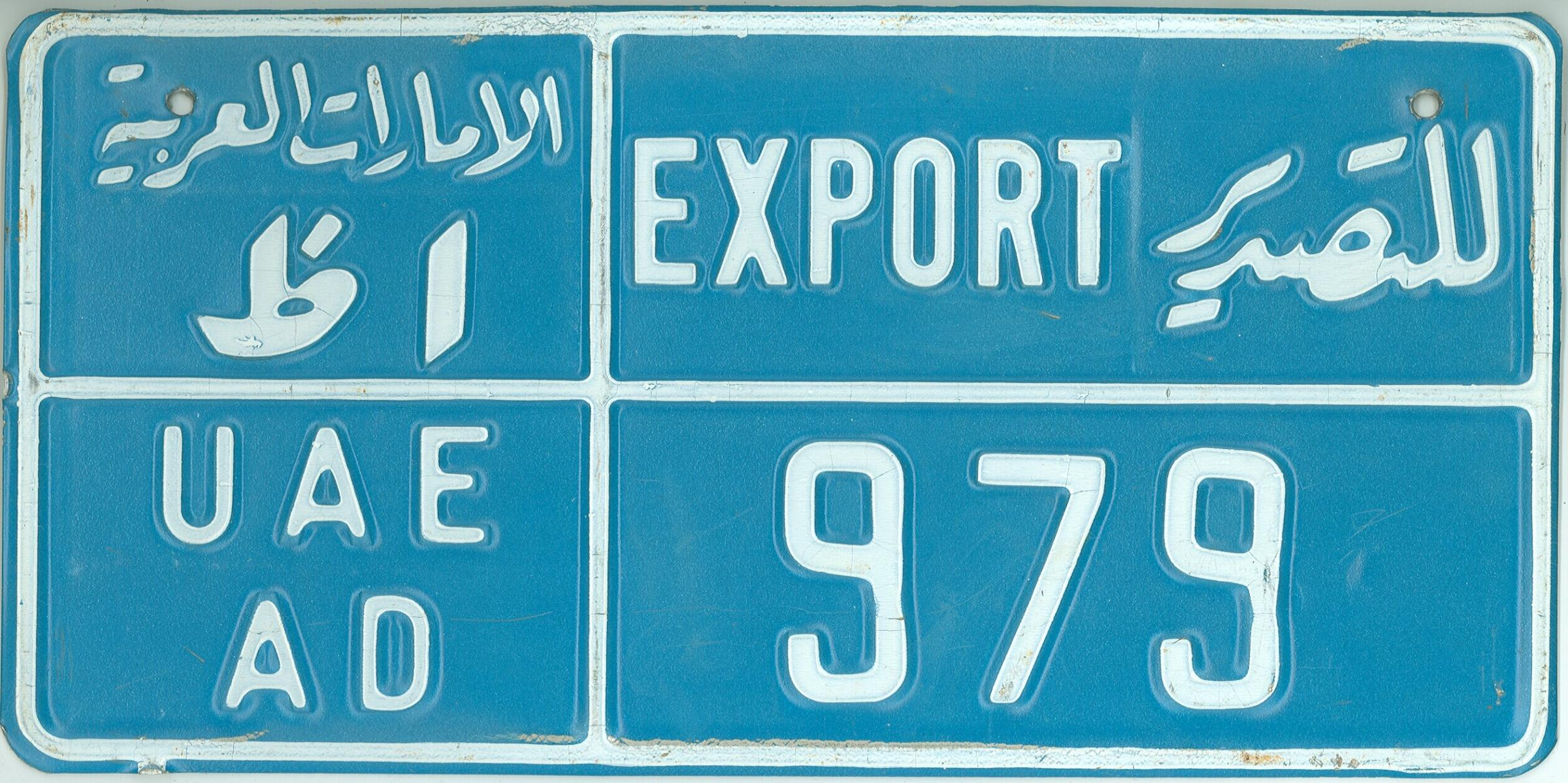 Export license plate of Abu Dhabi (UAE)